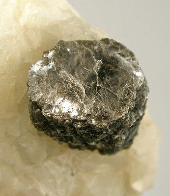 Orthoclase, Biotite Locality: Niaslo (Nieosla; Niesolo), Basha Valley (Basha Nala; Basna), Skardu District, Baltistan, Northern Areas, Pakistan (Locality at ) Size: 7.0 x 5.4 x 5.4 cm. Sharp, large, lustrous, and translucent, pastel-green orthoclase crystals form a fine specimen from an uncommon Pakistan locality noted for its alpine-type metamorphic rocks. The crystals have textbook orthoclase crystal form. This very fine, alpine-type piece is very nicely accented by the lustrous biotite column on the bottom and dates to small finds 8-10 years ago.